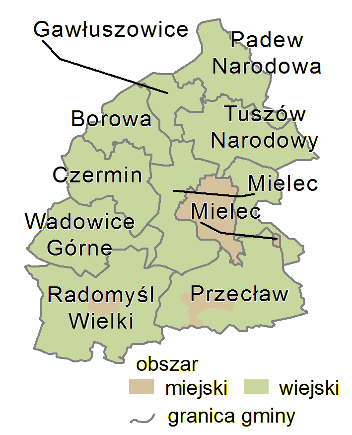 Subcarpathian Voivodeship - Mielecki county gminas